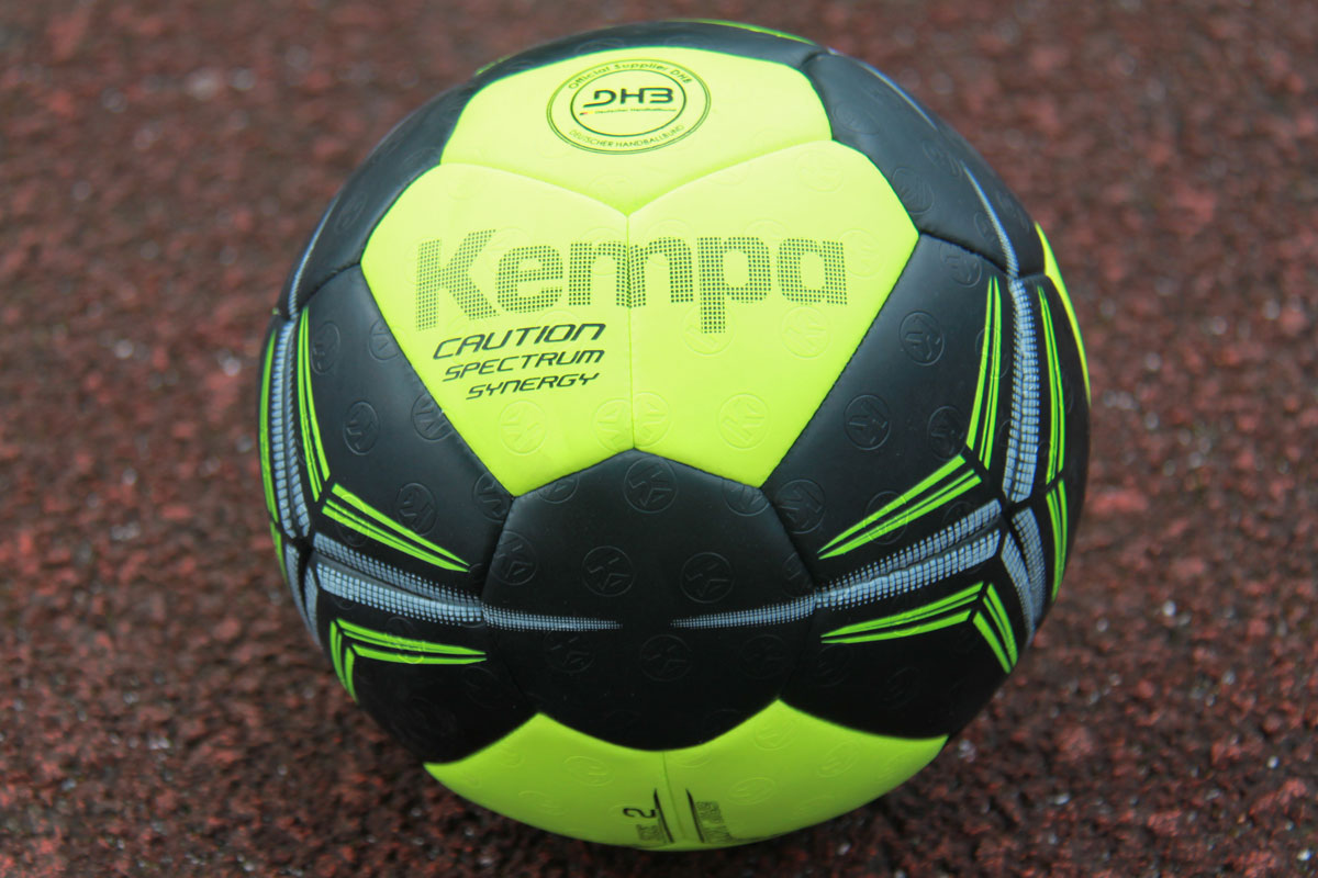 Kempa Caution Synergy Pro Handball (2017)